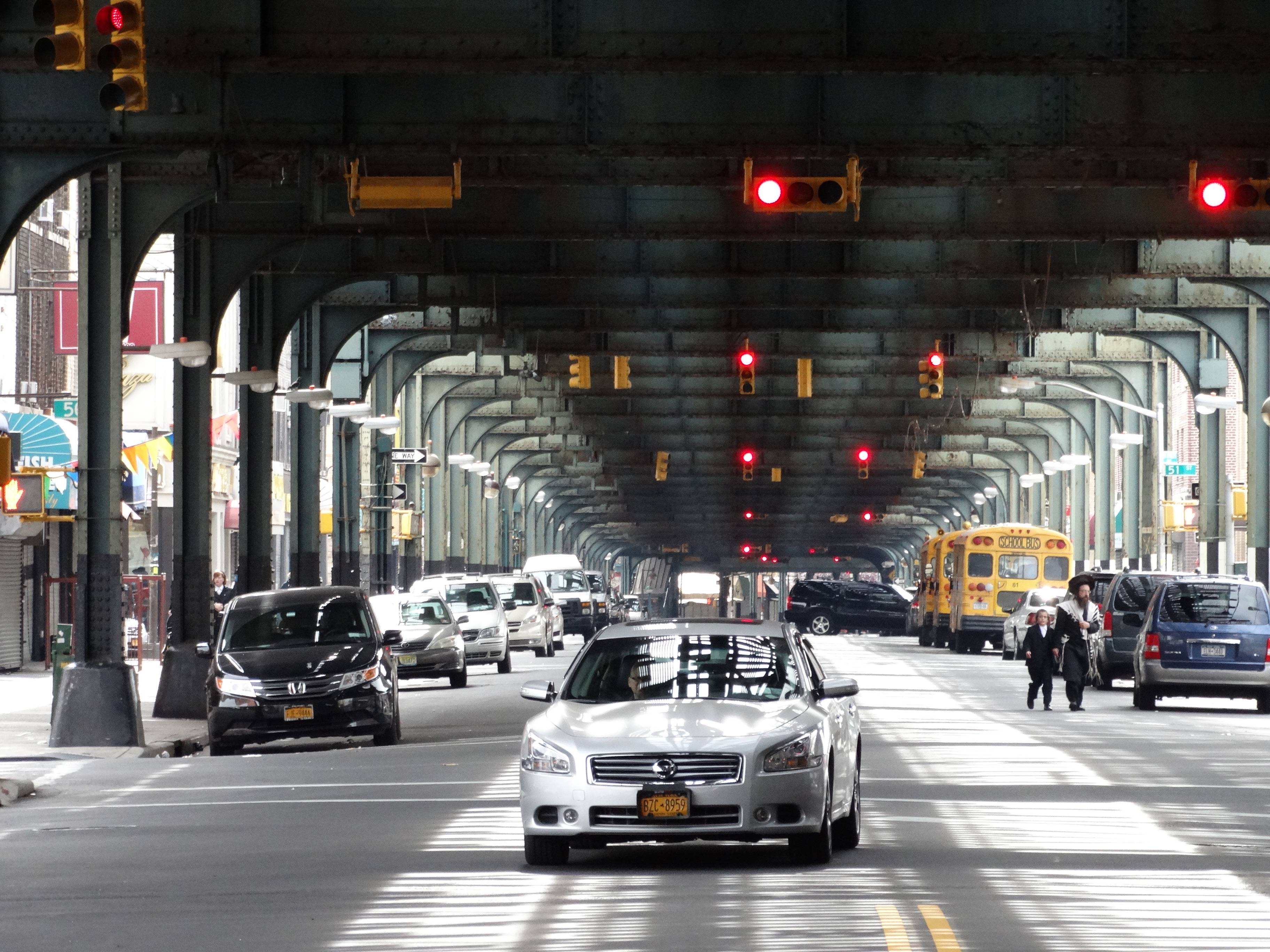 Underneath the Elevated Train - Borough Park - Hasidic District - Brooklyn - New York - USA